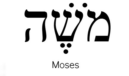 Name of Moses in Hebrew language and English